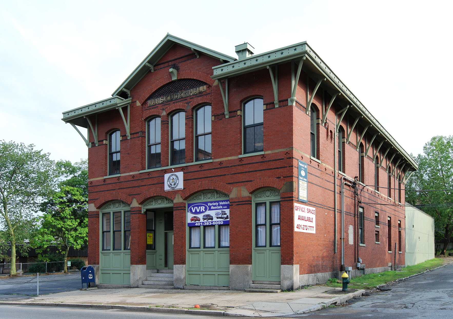 Wanskuck Hall, Branch Avenue, Providence, Rhode Island Built in 1882.